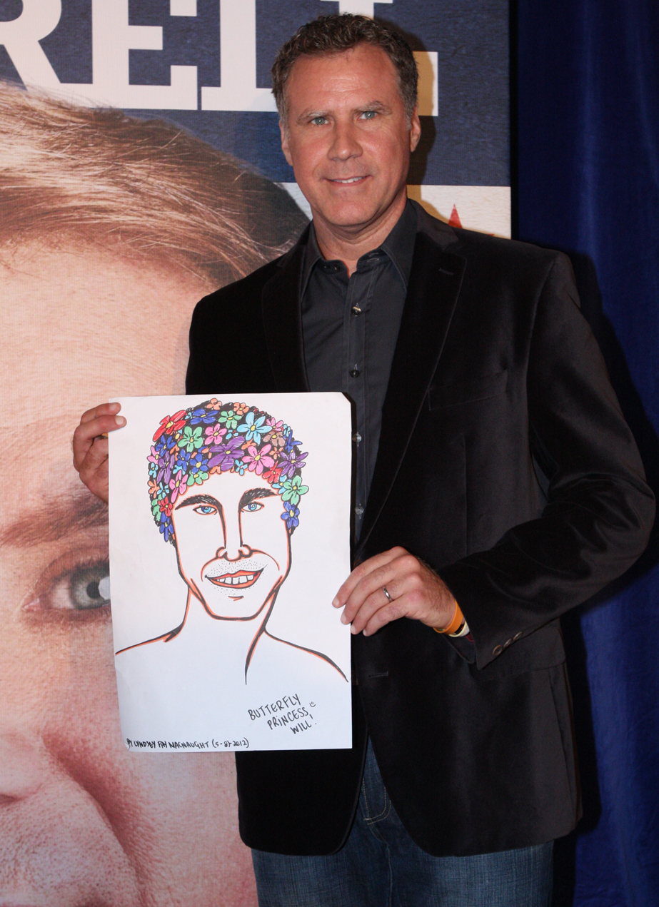 Will Ferrell: The Campaign - Australian Red Carpet Premiere at Fox Studios in Sydney 2012.